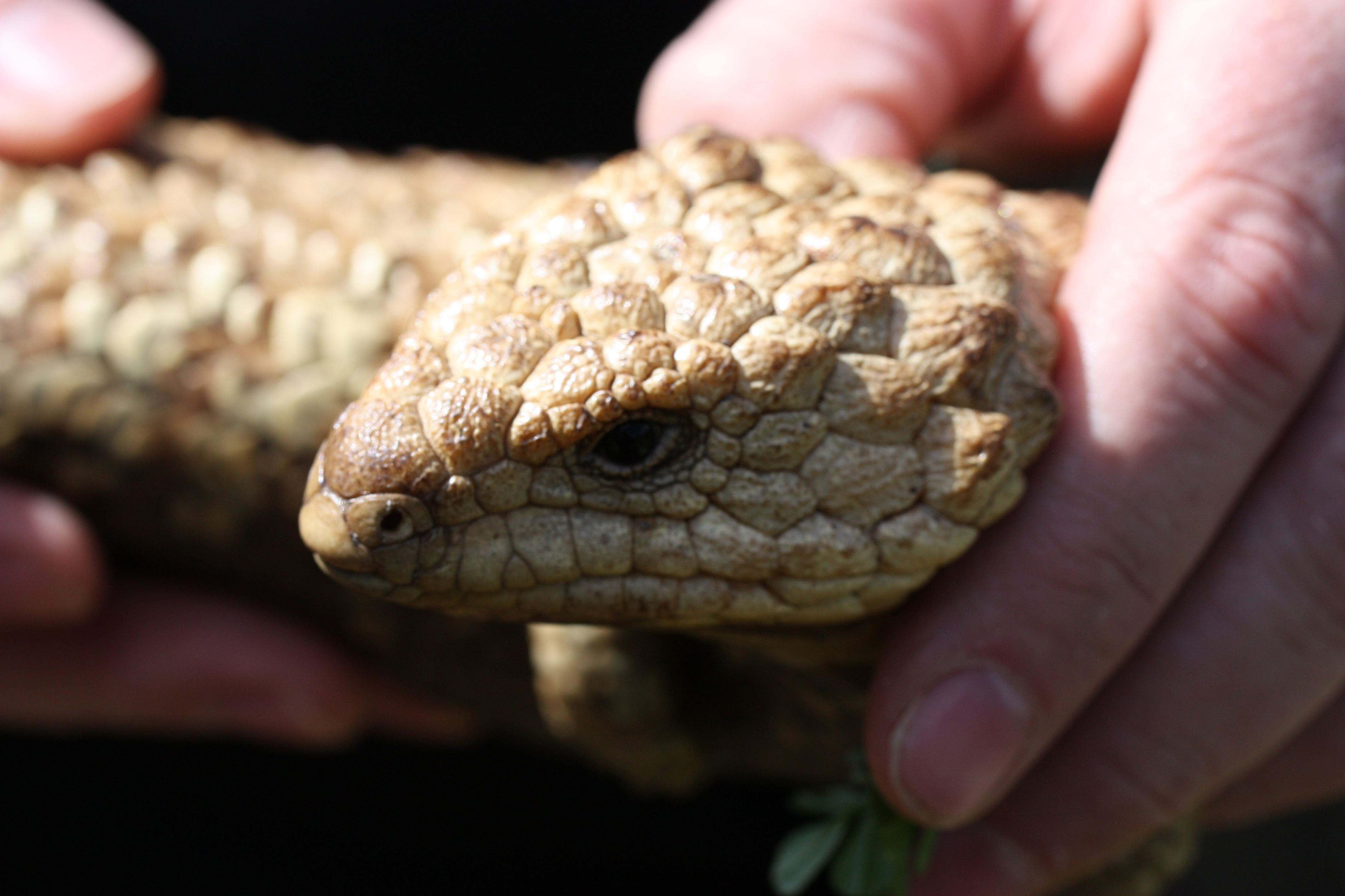 A shingleback skink in Argadells Homestead, Flinders Ranges, South Australia.